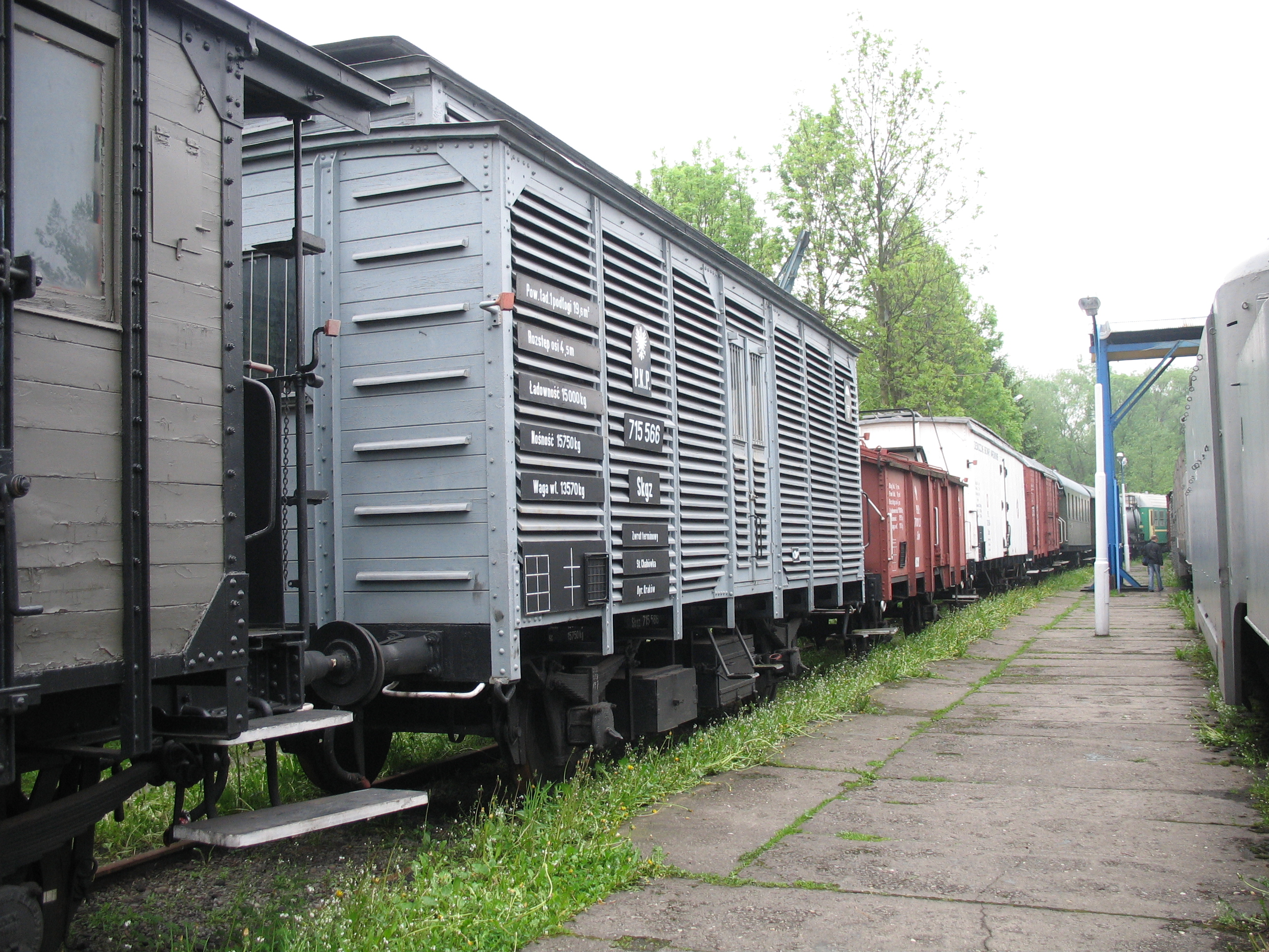 Wagon Skgz 715 566 for transporting geese in Chabówka Railway Museum, Poland